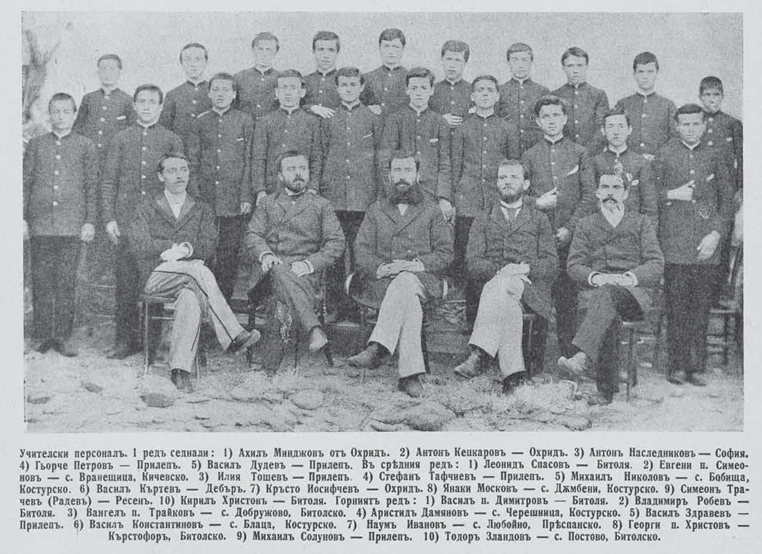 Bulgarian exarchist school personal